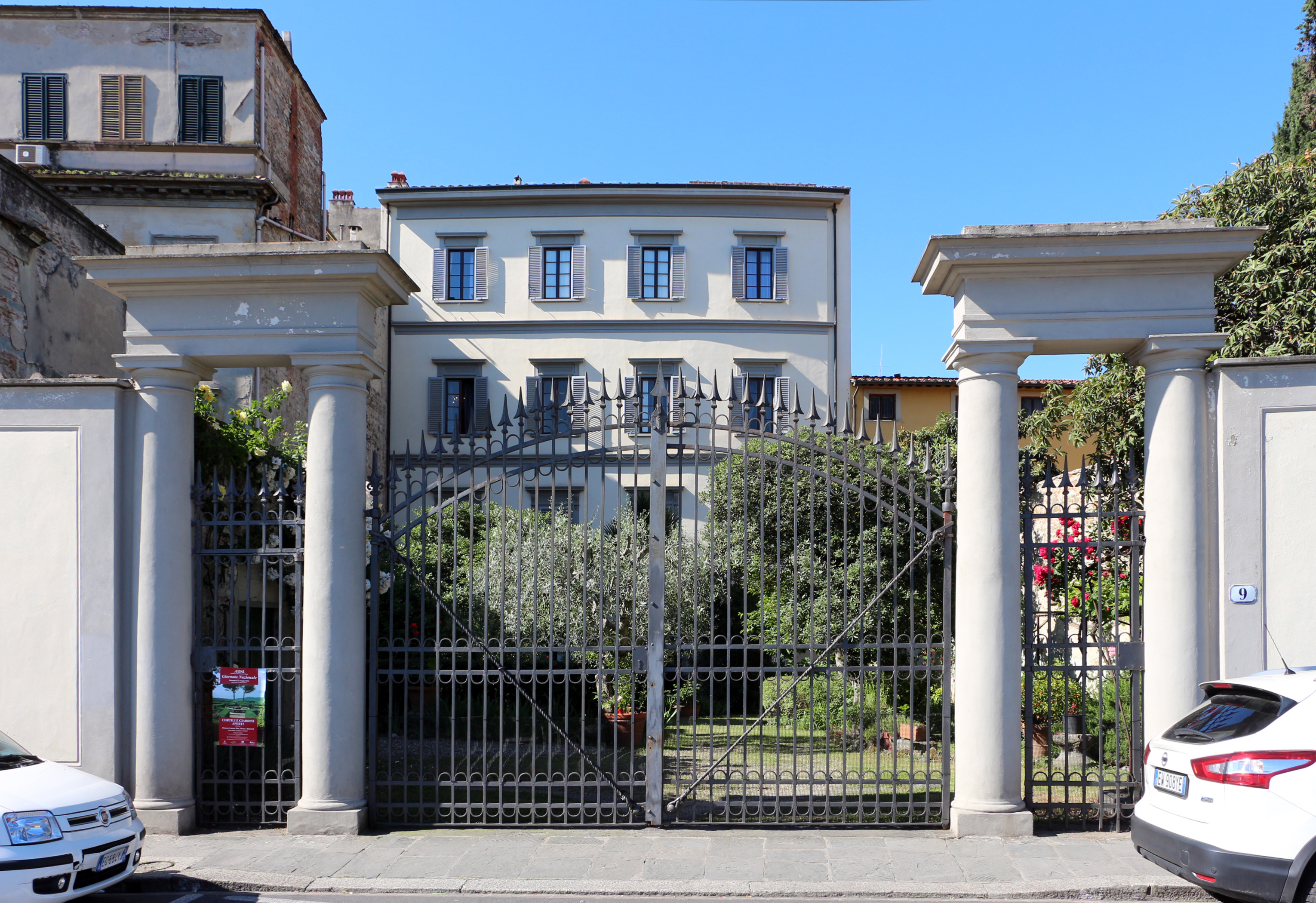 Palazzo Wagnière-Fontana